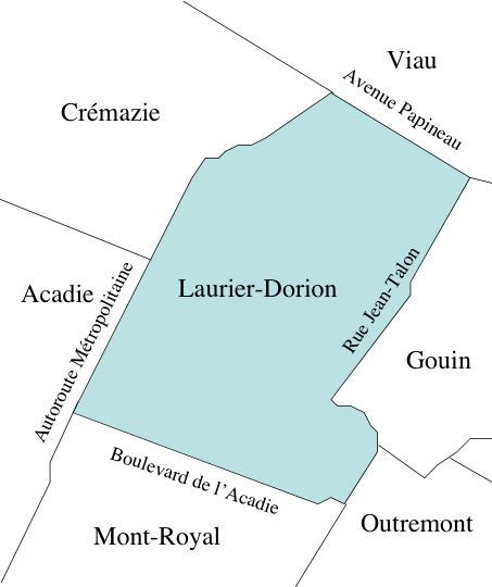 Map of the circonscription of Laurier-Dorion(Québec)